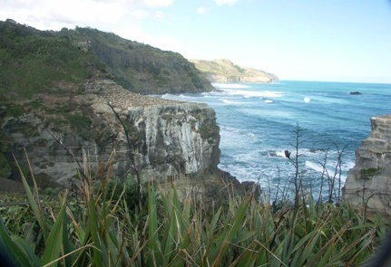 Muriwai, Auckland Region, New Zealand, looking south - photo taken and uploaded by Paul Moss, Photographer, Artist, Paul Moss Photographer Artist NZ